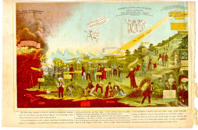 The above plate, designed by John W. Barber, is an ingenious representation of "The Broad and the Narrow Road;" the one leading to Everlasting Destruction, and the other to Eternal Glory......; siz;: 7" x 10 3/4"